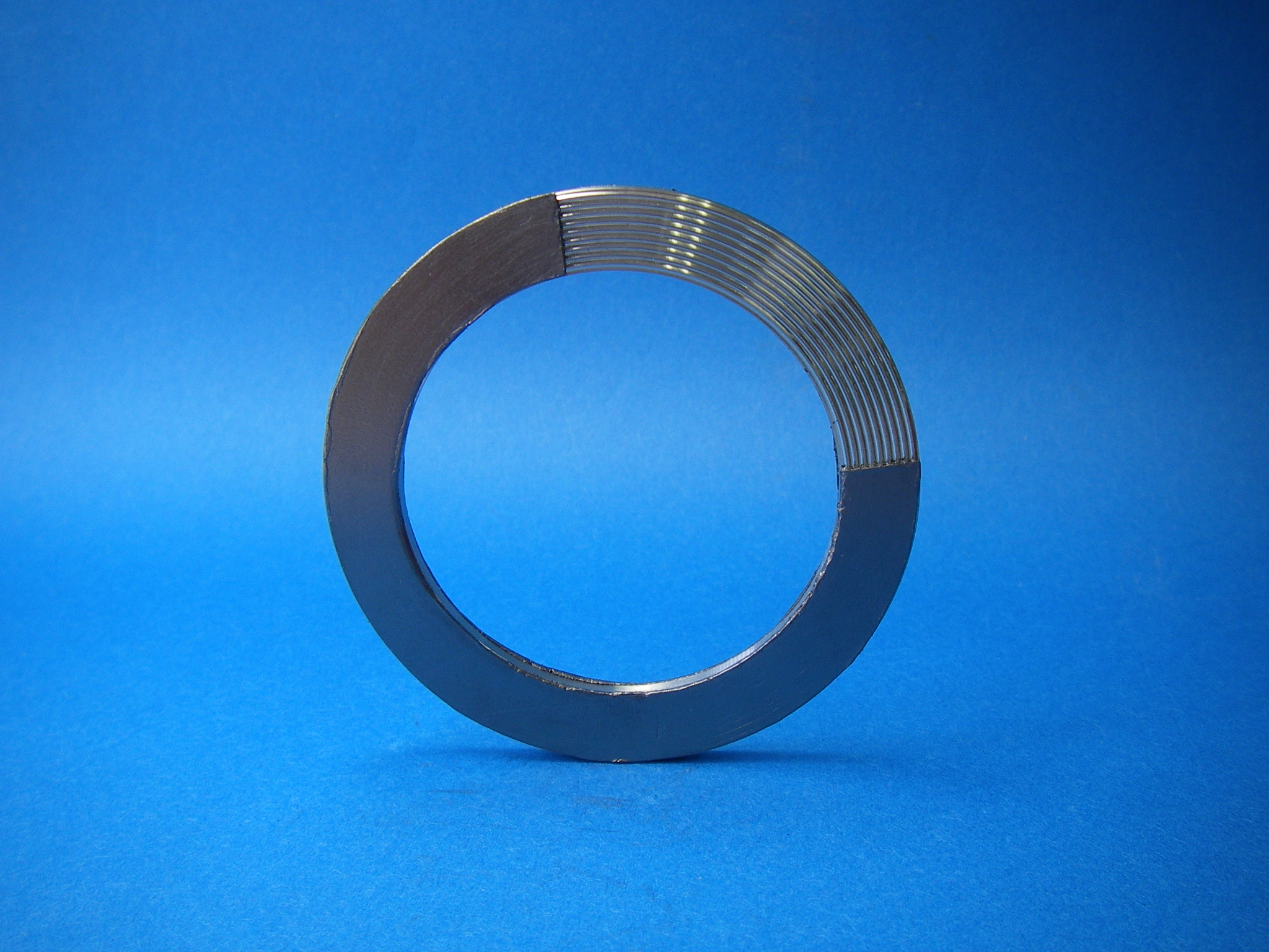 Kammprofile gasket